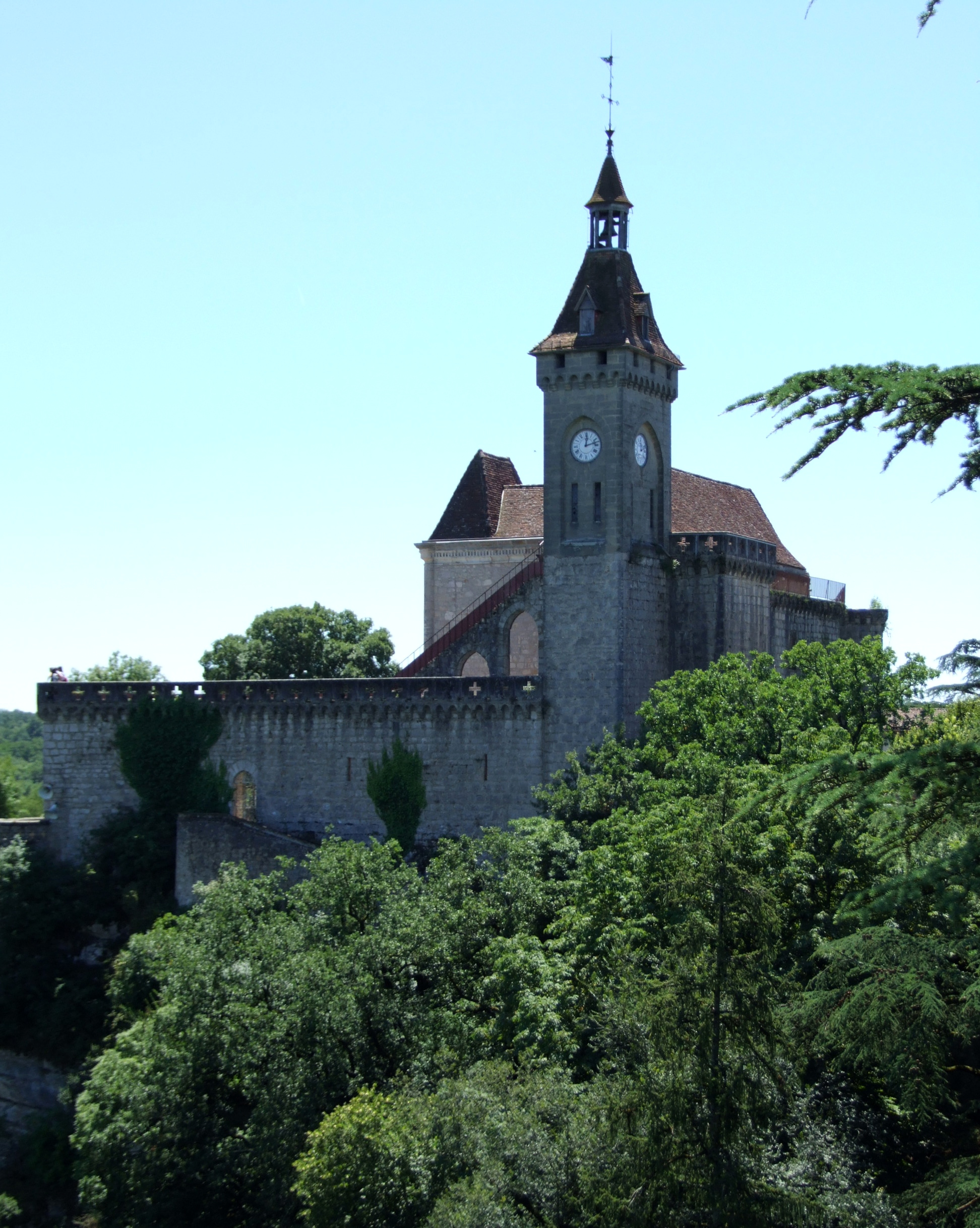 Rocamadour, Lot, FRANCE